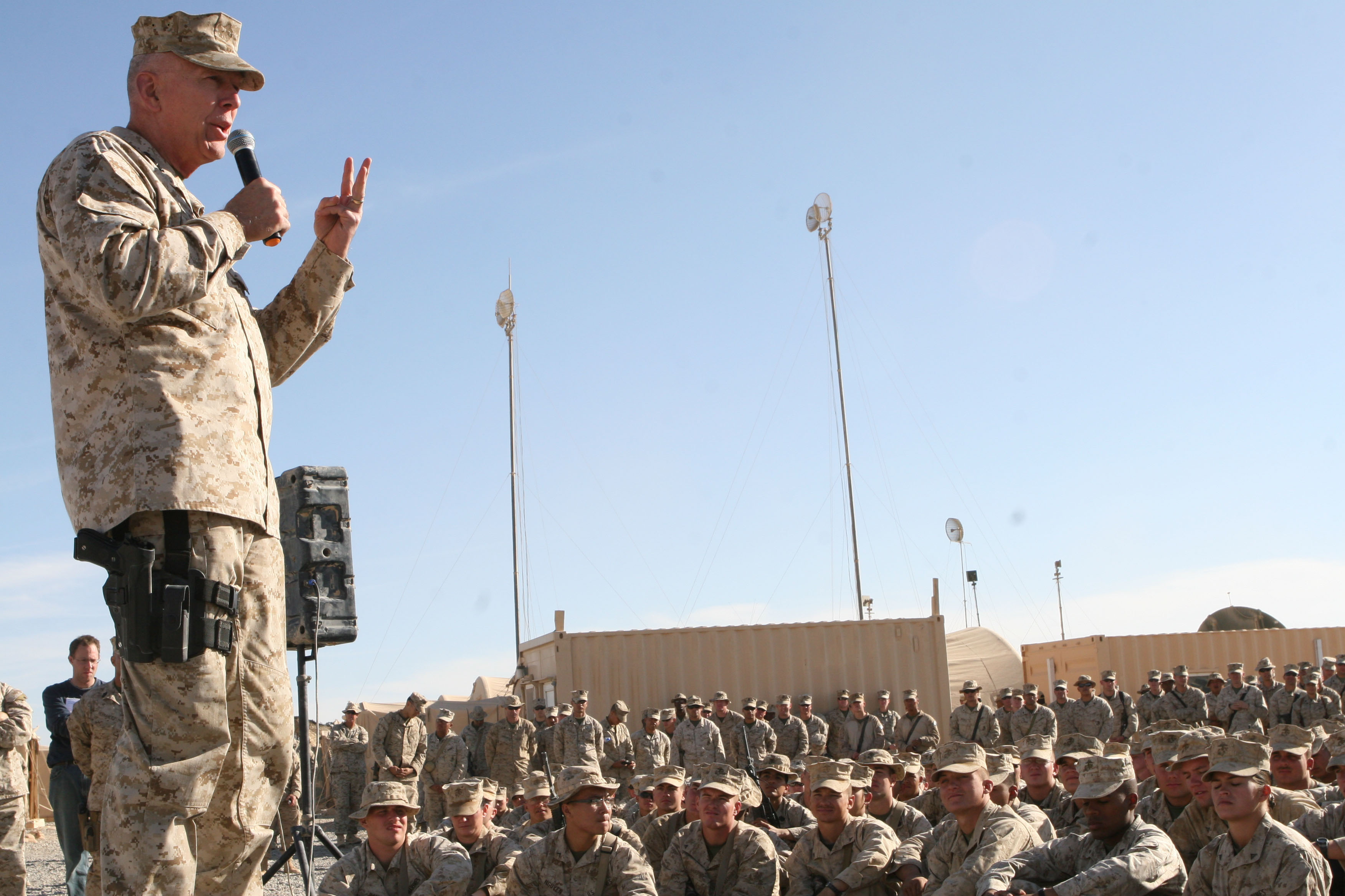 Gen. James T. Conway, commandant of the Marine Corps, talks to his Marines Nov. 26 about the future of the Marine Corps and the mission at hand in Helmand province, Afghanistan. Conway expressed his confidence in Marines getting the job done. When referring to operations in Afghanistan, “the sky’s the limit,”Conway conveyed in his Defense Department press briefing Dec. 15, even within an 18-month timeframe.